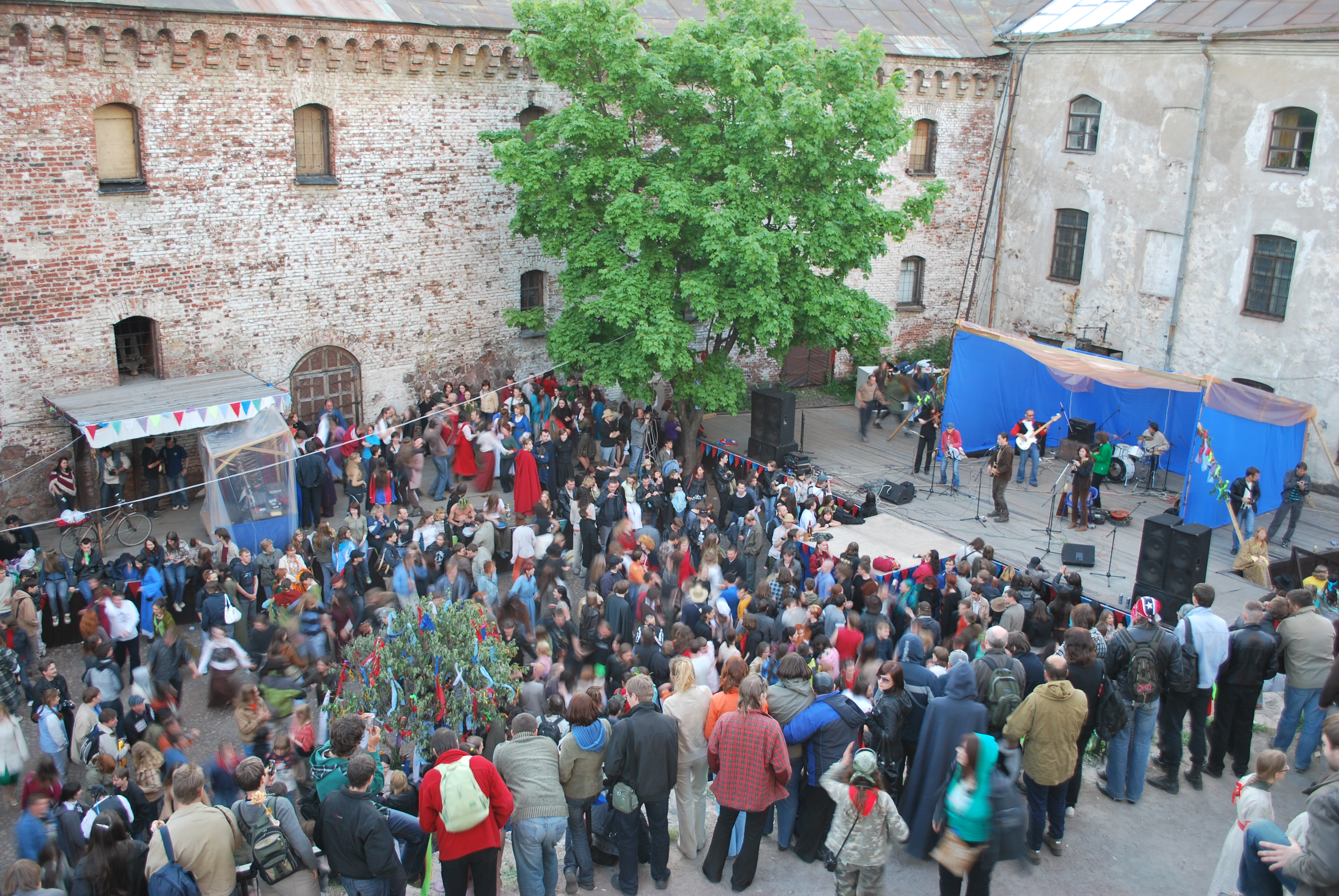 Maytree Festival in Vyborg